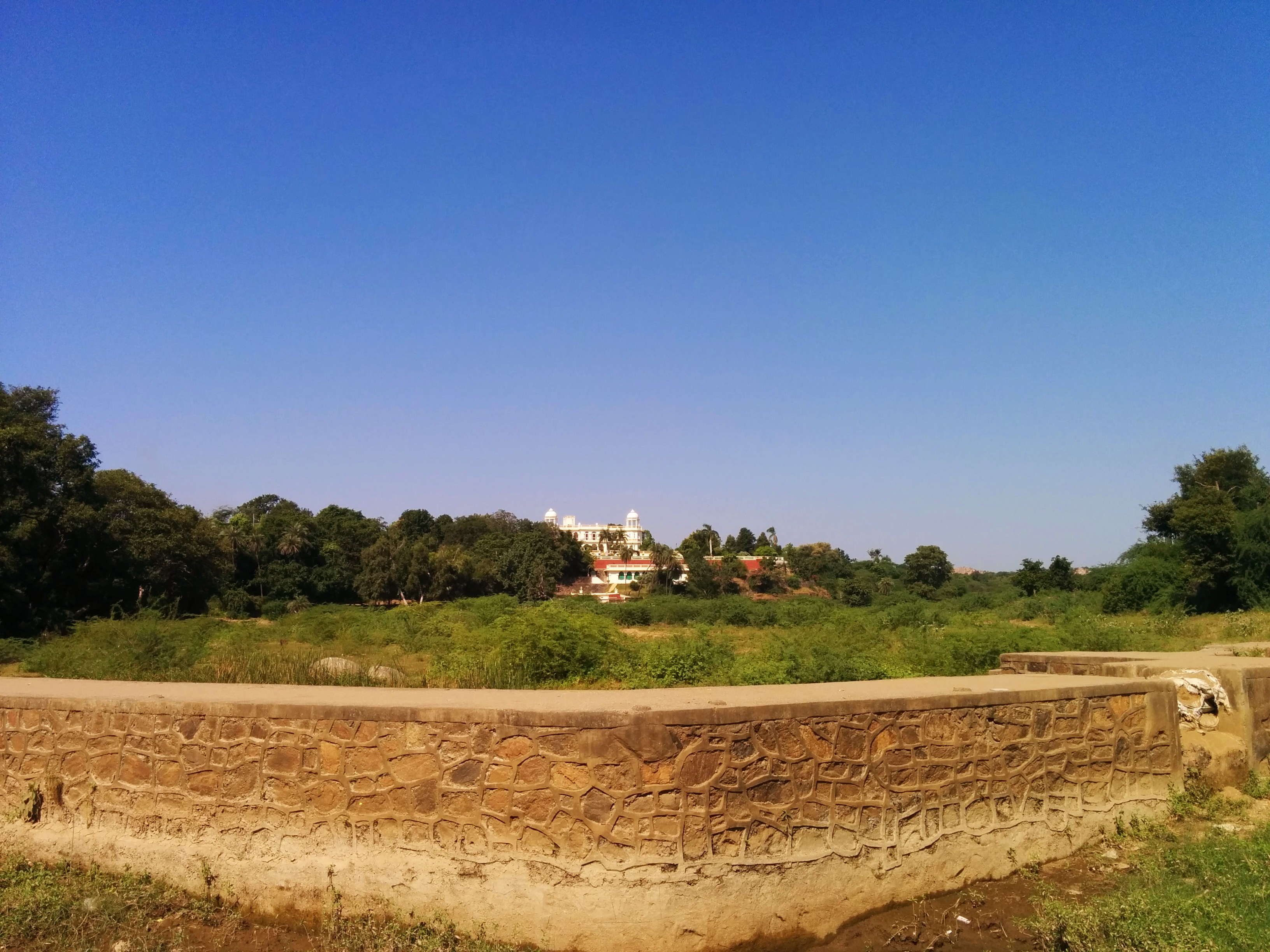 Balaram Palace in the background and River Balaram